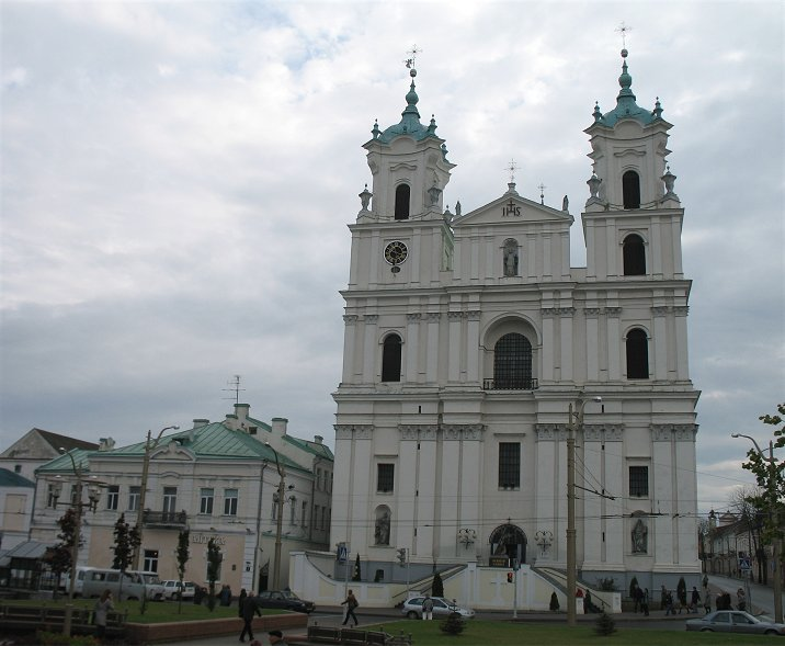 Roman Catolic Church of Saint Francis Xavier, in Hrodna (Гро́дна, Гродно, Grodno, Gardinas), Belarus. There is an operational pharmacy and a museum of pharmacy in the lower building located left of the church.